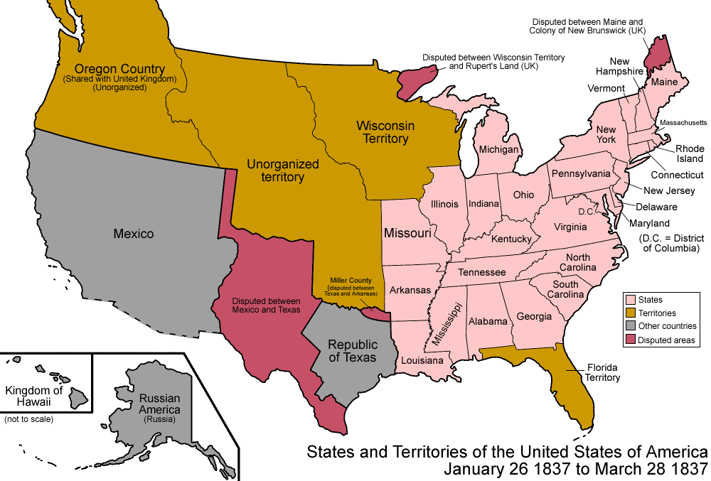 Map of the states and territories of the United States as it was from January 1837 to March 1837. On January 26 1837, Michigan Territory was admitted as the state of Michigan. On March 28 1837, the Platte Purchase added a triangle of unorganized land to Missouri.